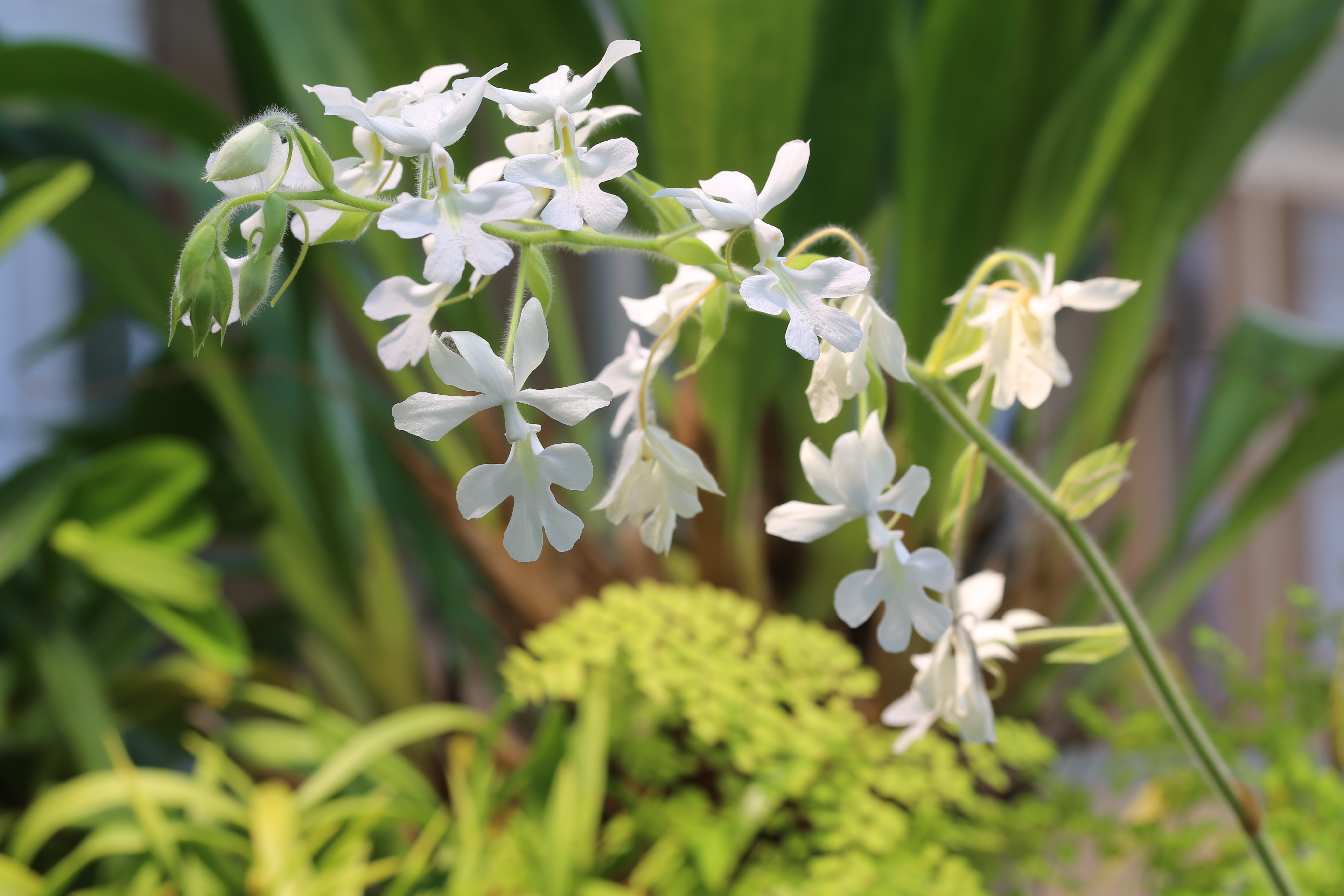 Calanthe vestita 'Alba' at Gothenburg Botanical Garden in 2015. Plant id: 1997-V0035 p G -- Christ., H